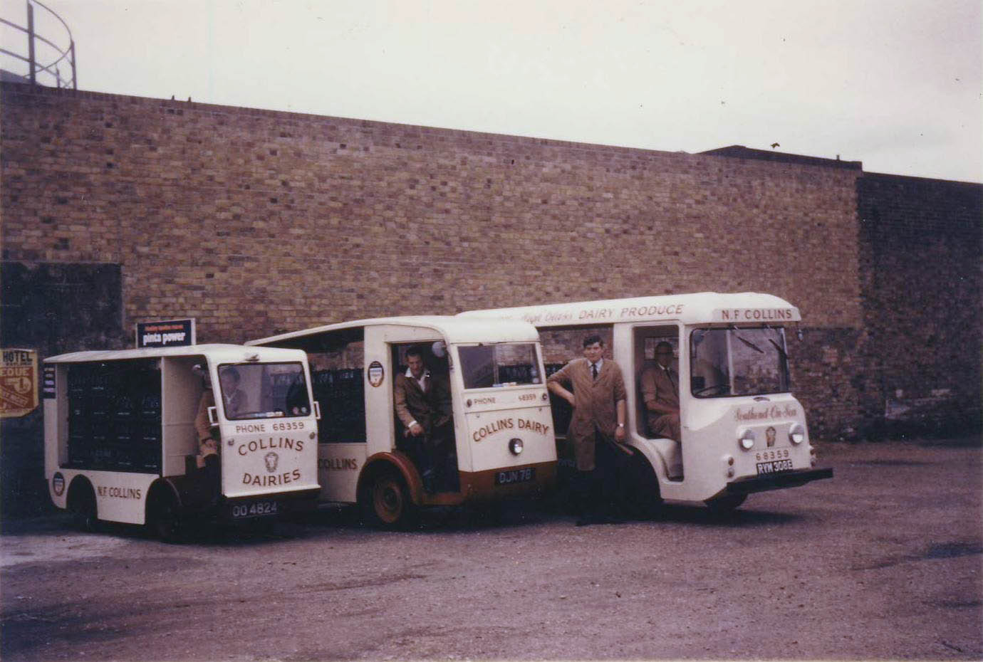 N F Collins milk floats at their Burnaby Road depot, Southend-on-sea, Essex, England. Left to right is Morrison-Electricar D4 (reg no: 00 4824), Morrison-Electricar BM (ref no: DJN 76) and Harbilt Model 850 (reg no: RYM 308E)